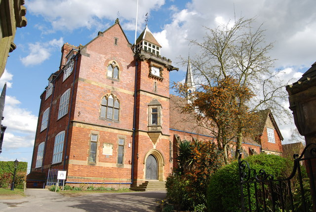 The Skinners' School One of two boys grammar schools, in west Kent, established by the Skinners Company of London.